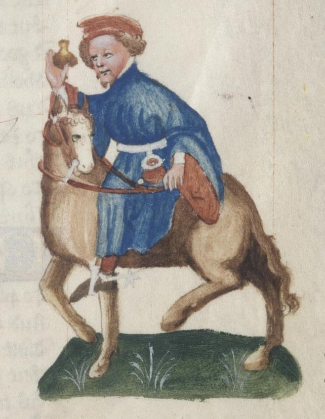 The Manciple in the Ellesmere manuscript of Geoffrey Chaucer's Canterbury Tales.